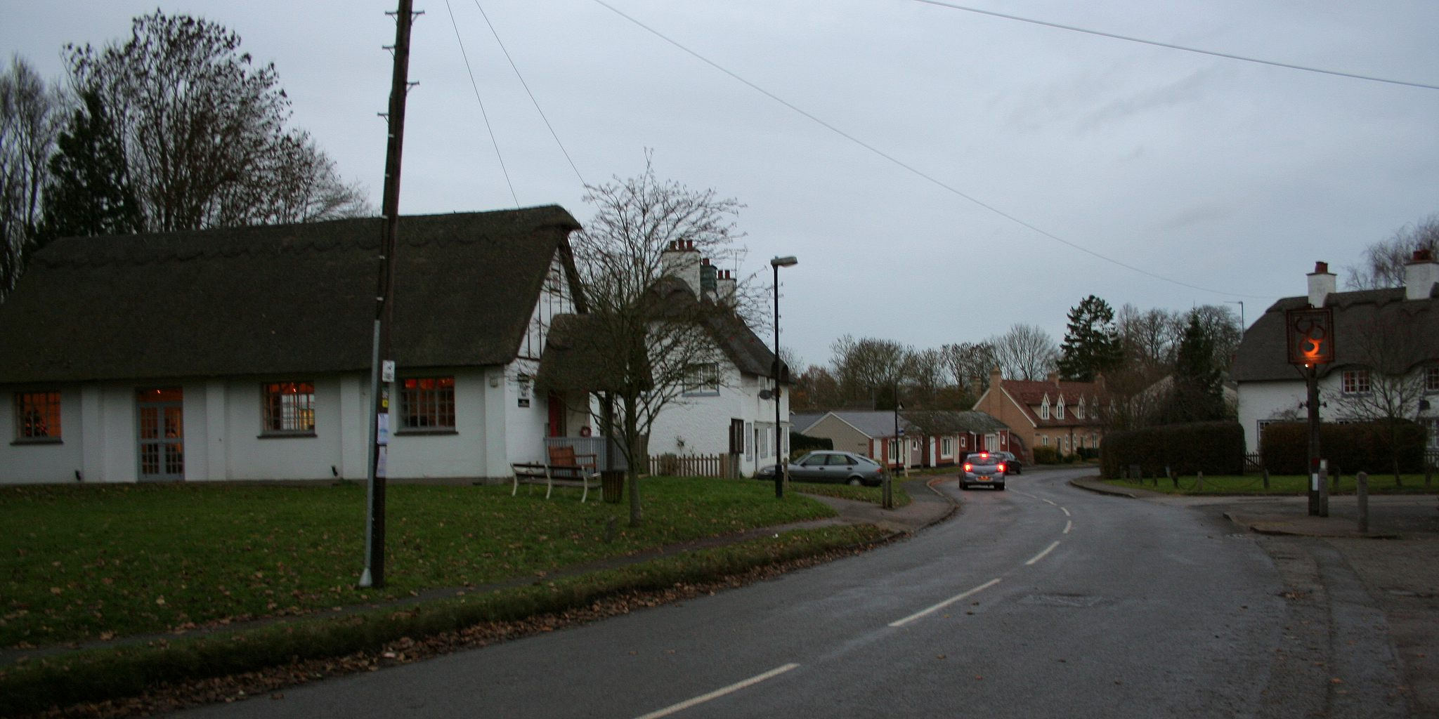 Madingley high street with village hall (left) and pub sign in December 2013.